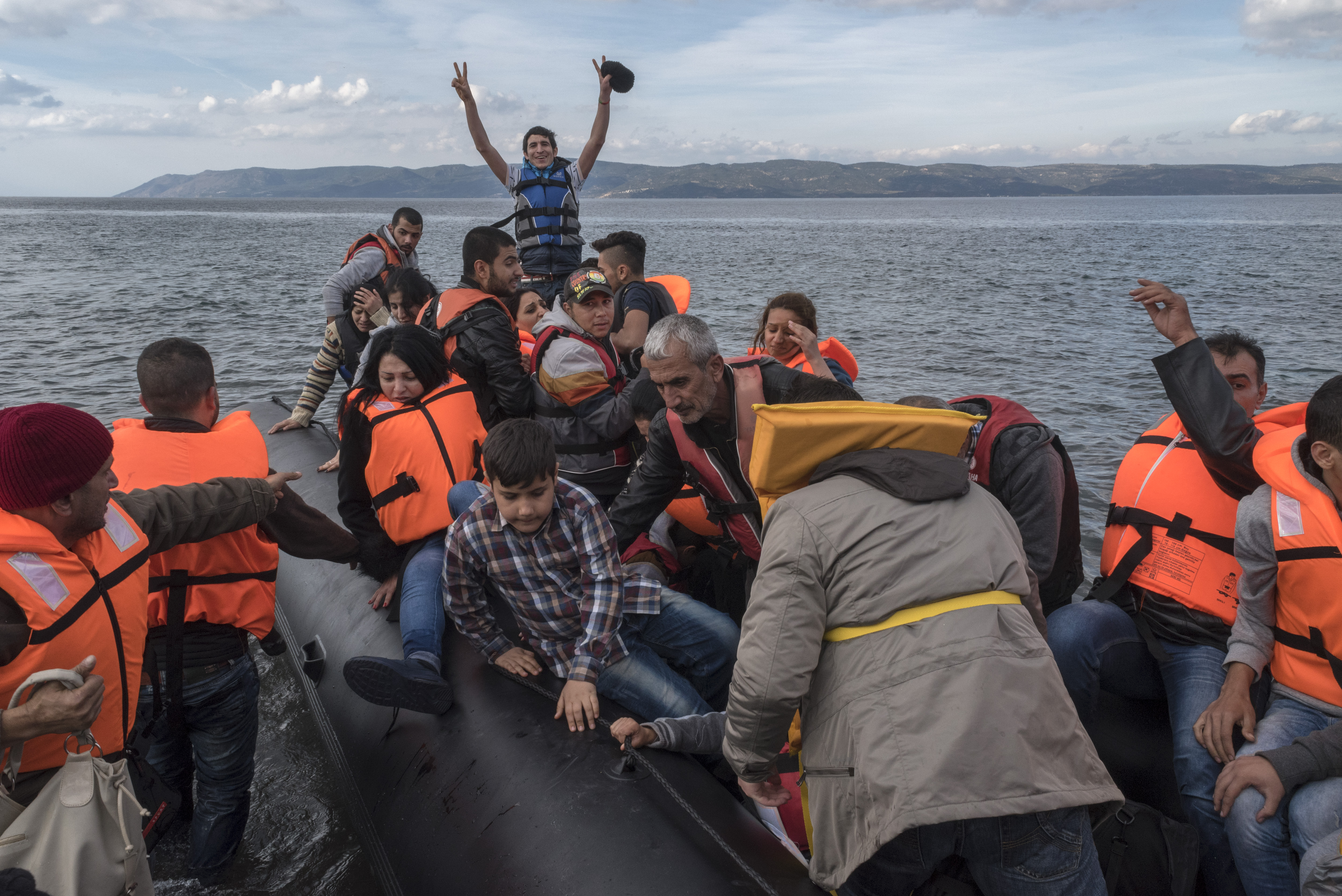 An inflatable boat with Syrian Refugees just arrived safely to Skala Sykamias, Lesvos island, Greece.